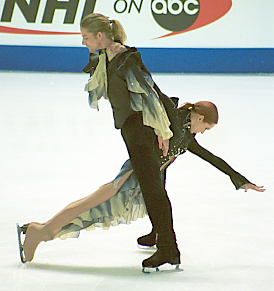 Marina Anissina and Gwendal Peizerat compete their free dance at the 2001 Grand Prix Final in Kitchener, Ontario. Photo taken by me, Vesperholly 05:40, 17 July 2006 (UTC) Слика:Anissina peizerat.jpg